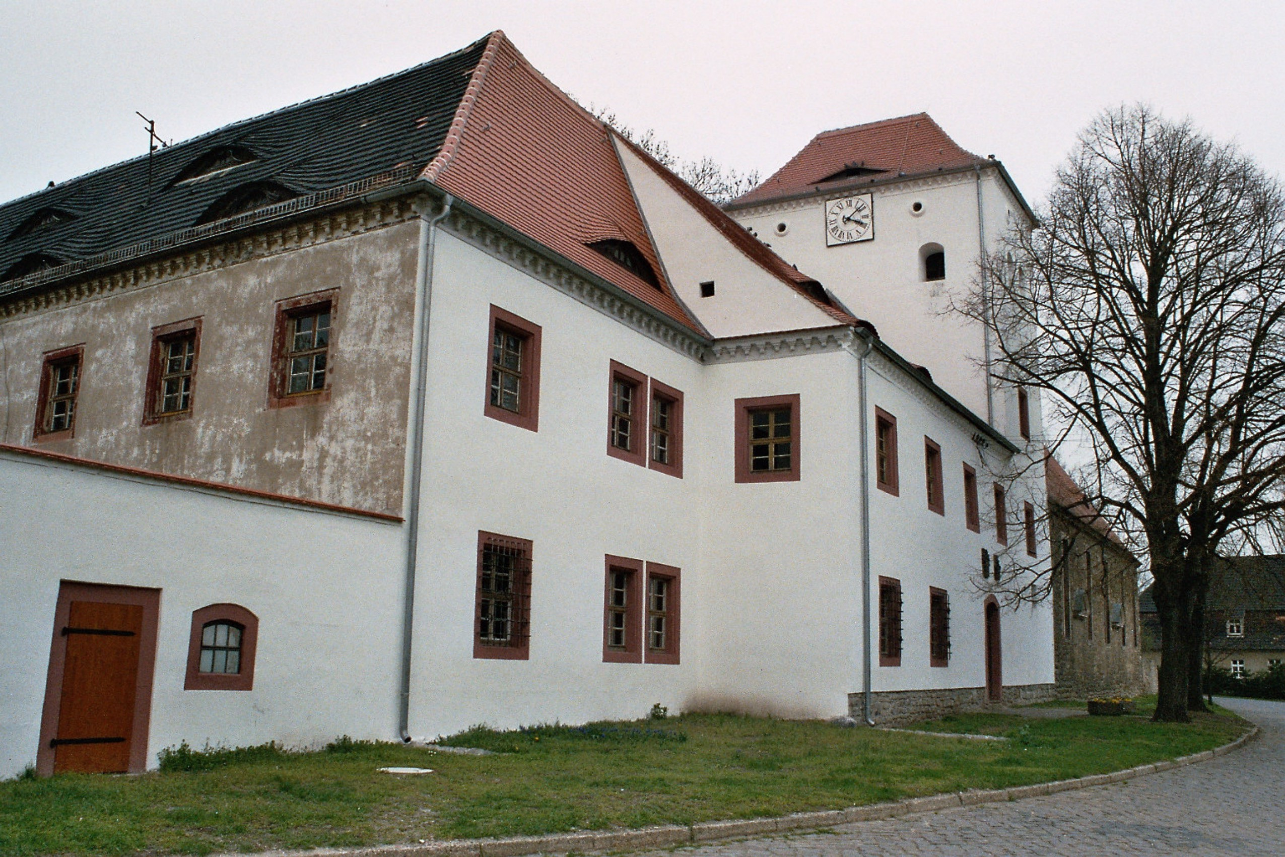 Altranstädt (Markranstädt), the castle and the church